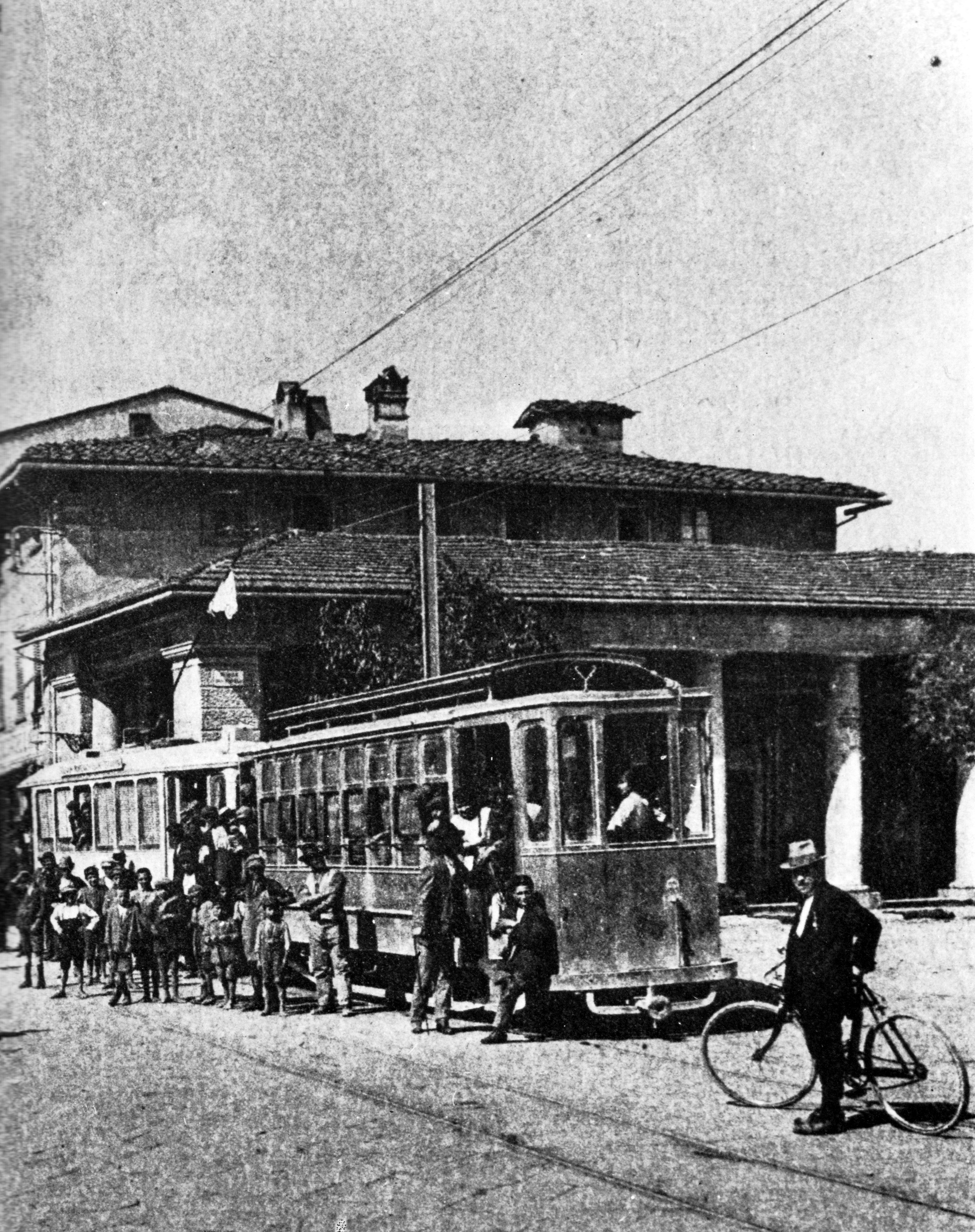 The tram stop in Popolo Square, now Vittorio Veneto square, in Montevarchi. The tram service, called Tramvia Valdarnese, was connecting Montevarchi, San Giovanni Valdarno, Terranuova Bracciolini and Levane. It was active from 1914 to 1937.